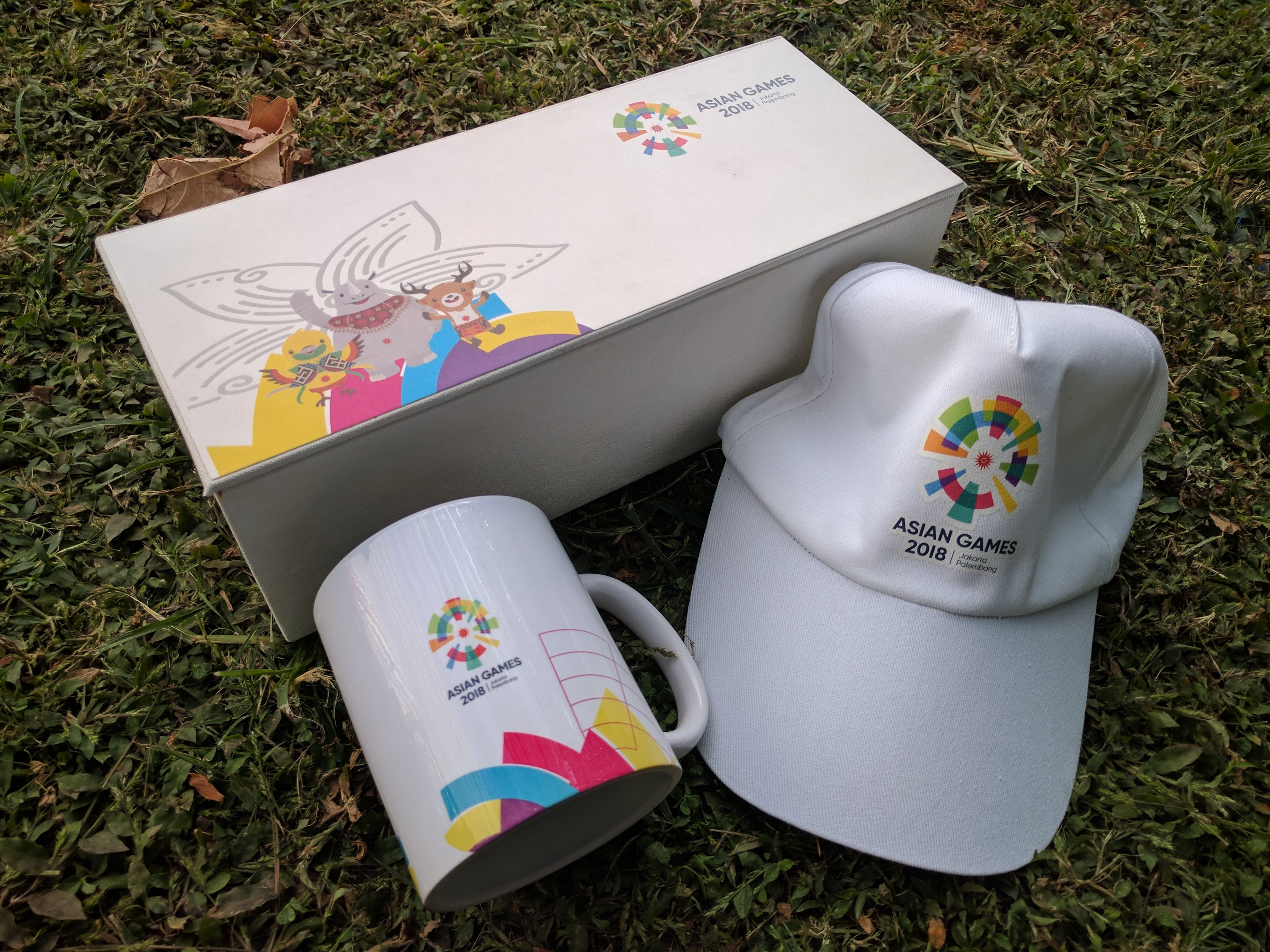 Asian Games Merchandise. Photograph taken at the Embassy of Indonesia, New Delhi, 2018.